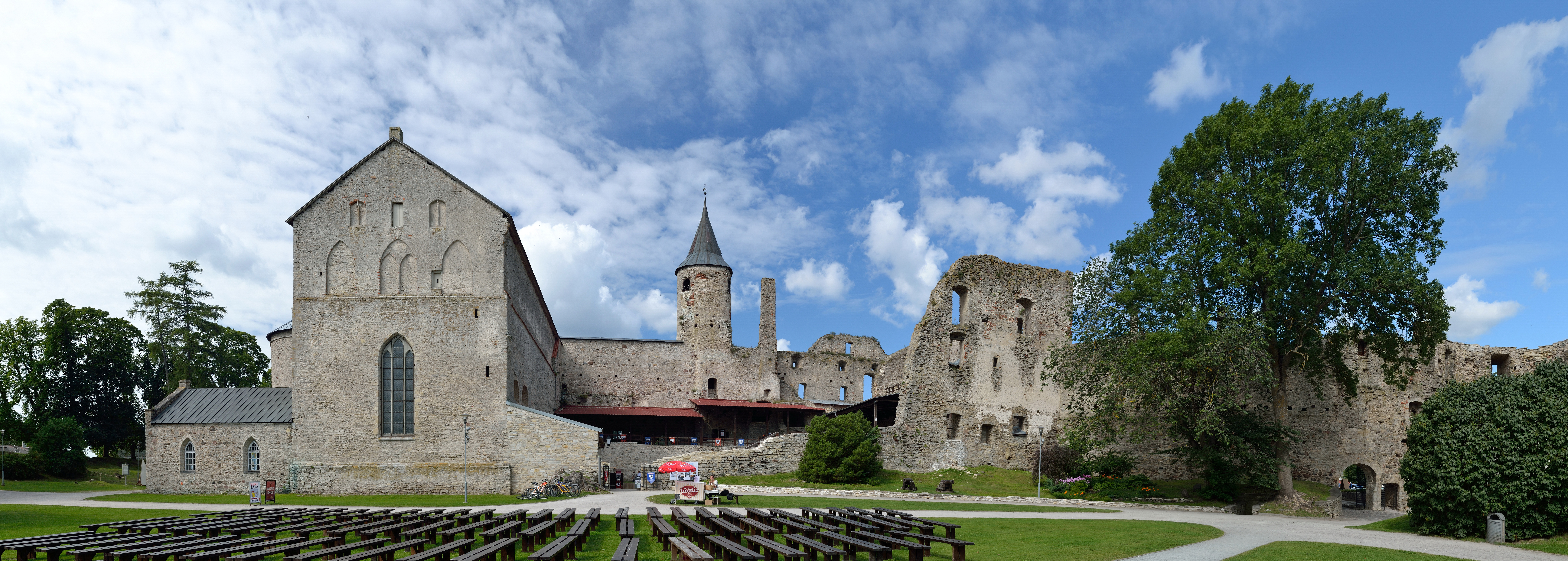 Haapsalu castle ruins